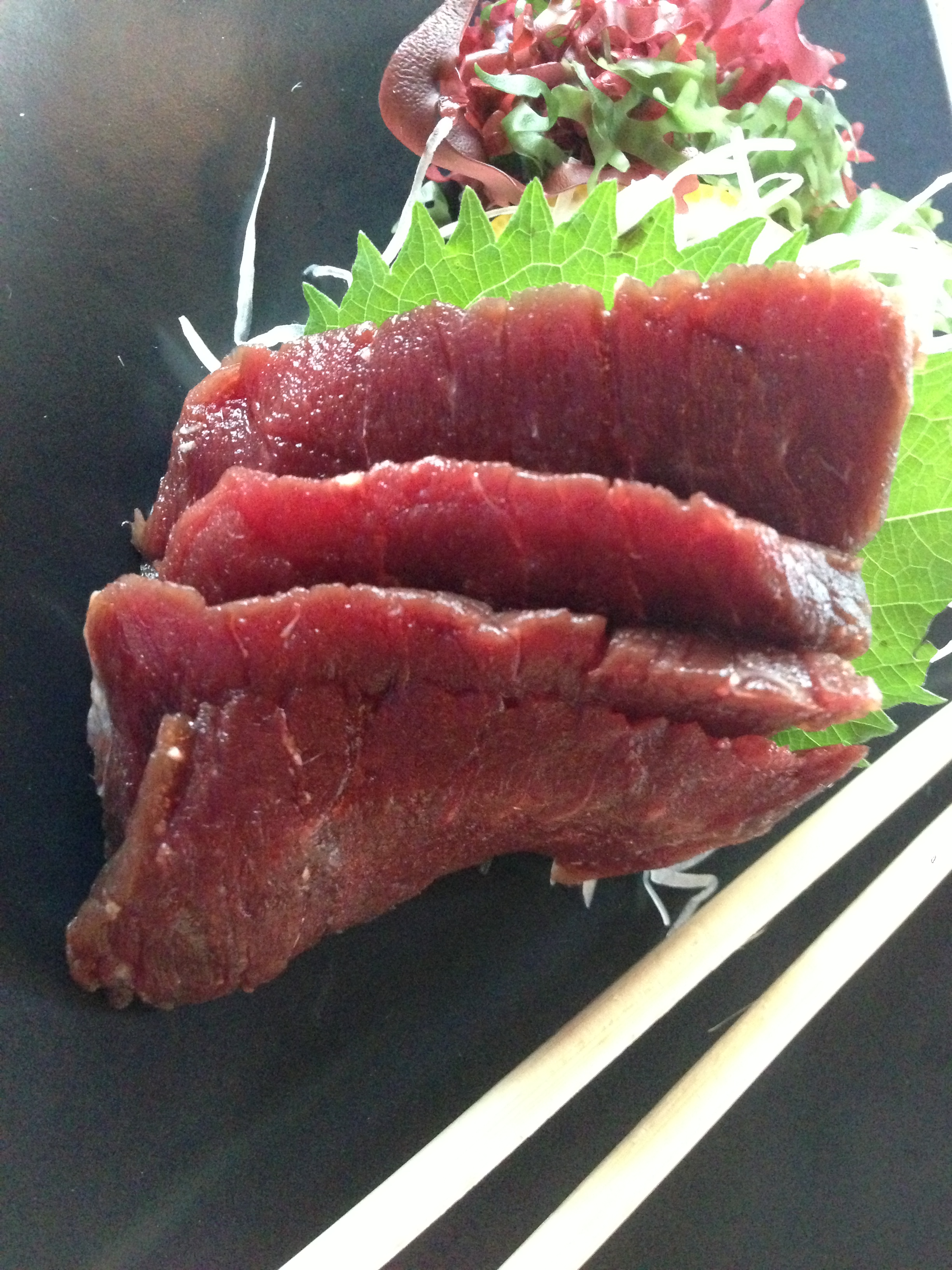 Blue whale meat sashimi served in one of Moscow restaurants